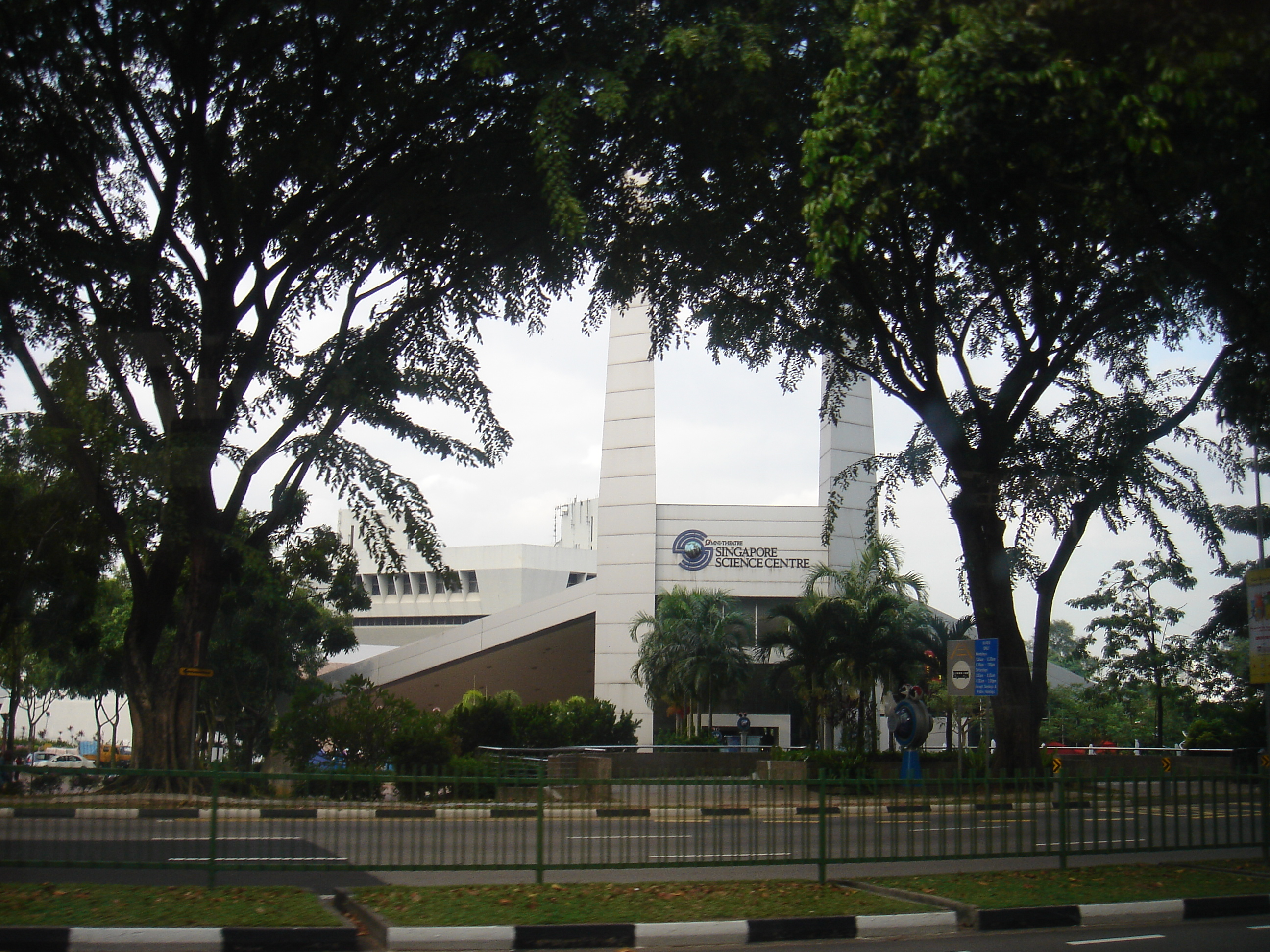 Exterior view of Singapore Science Centre, Singapore.